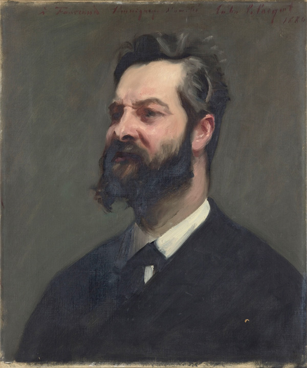 Louis de Fourcaud (1851-1914) John Singer Sargent -- American painter 1884 Musée d'Orsay, Paris Oil on canvas 60 x 49.7 cm Inscribed: A Fourcaud témoignage d'amitié John S. Sargent 1884. [Fourcaud, testimony of friendship, John S. Sargent 1884] gifted in 1915, Inventory RF 2195 Jpg: Joconde Database